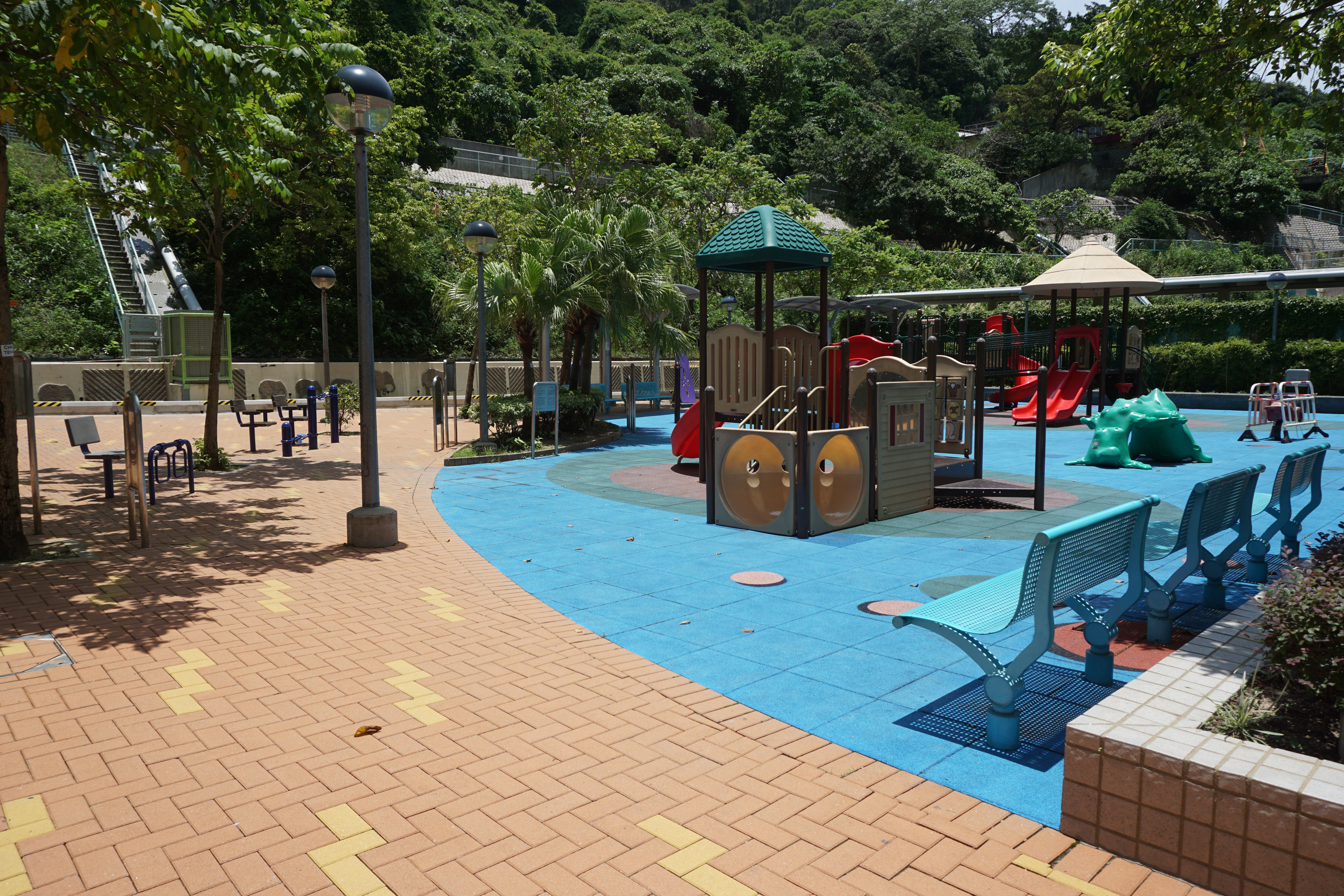 Chai Wan Estate in Chai Wan, Hong Kong.